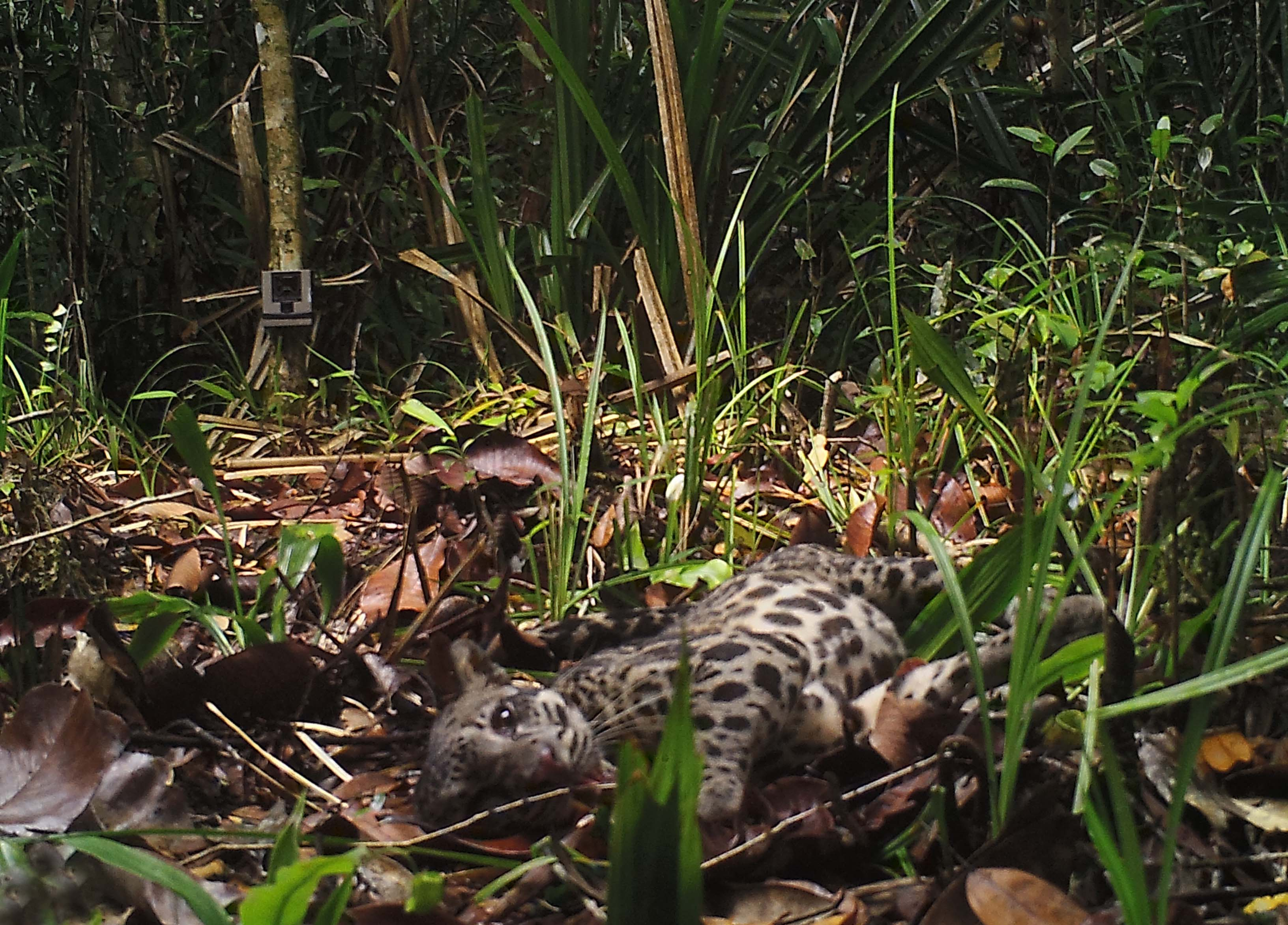 A Sunda Clouded Leopard, which is listed as Vulnerable by IUCN, caught on a camera trap in RER